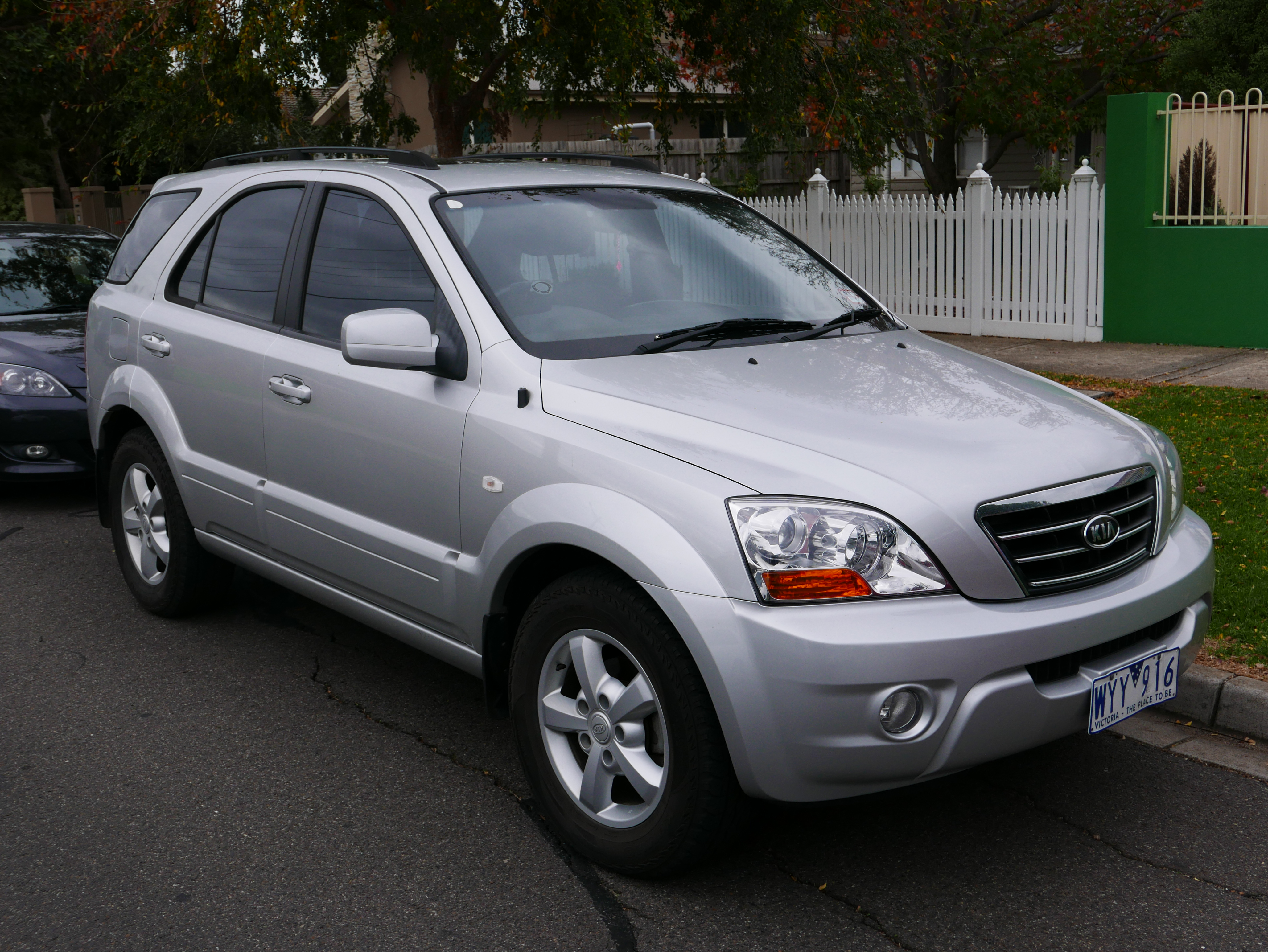 2009 Kia Sorento (BL MY08) EX Limited CRDi wagon. Photographed in Thornbury, Victoria, Australia. Vehicle registration enquiry resultsJurisdictionVictoriaRegistrationWYY916Chassis codeKNAJC524885802588Engine codeD4CB7262194Compliance date2009-03Year of manufacture2009